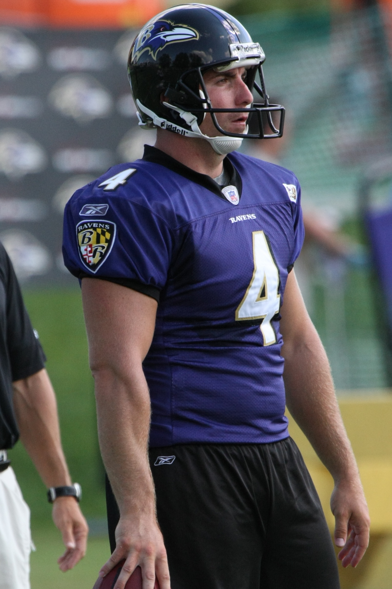 A picture of Sam Koch.